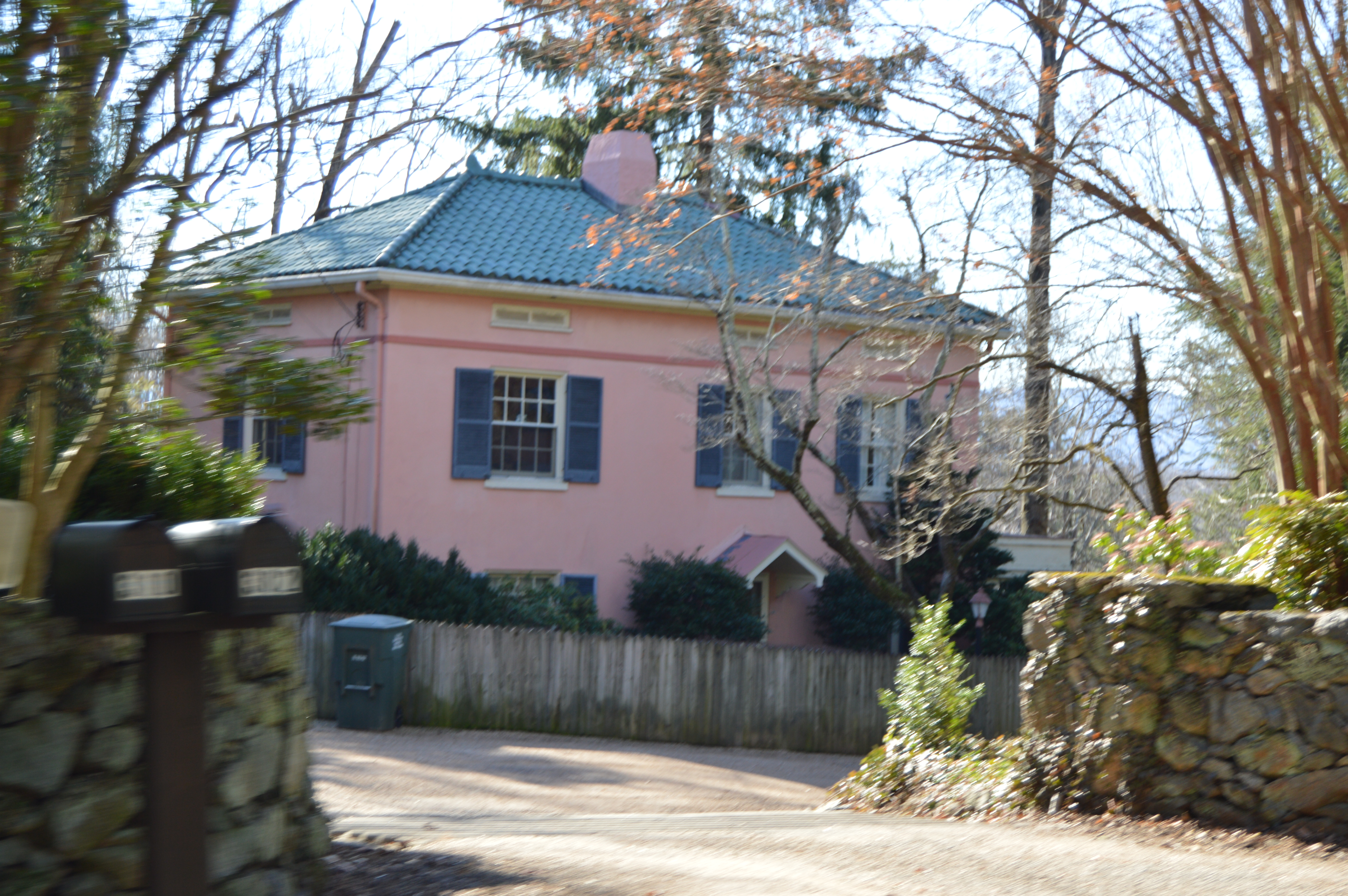 One of the outbuildings at the Casa Maria complex, located on Ortman Road south of U.S. Route 250 and southwest of Crozet in Albemarle County, Virginia, United States. The complex is listed on the National Register of Historic Places.